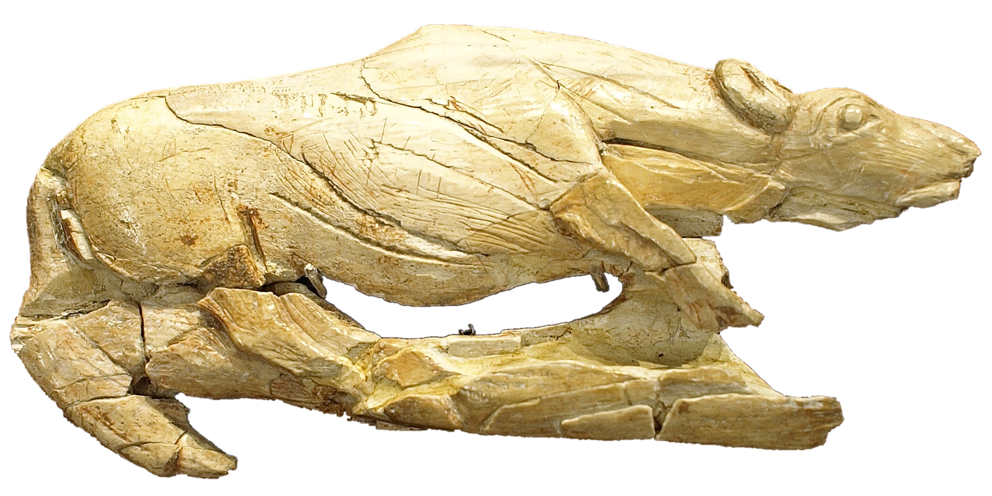 Atlatl "creeping hyena", found in La Madeleine rock shelter in Tursac, Dordogne, Aquitaine, France. 10.7 cm. Magdalenian culture. It can be viewed in the National Prehistory Museum in Les Eyzies-de-Tayac.